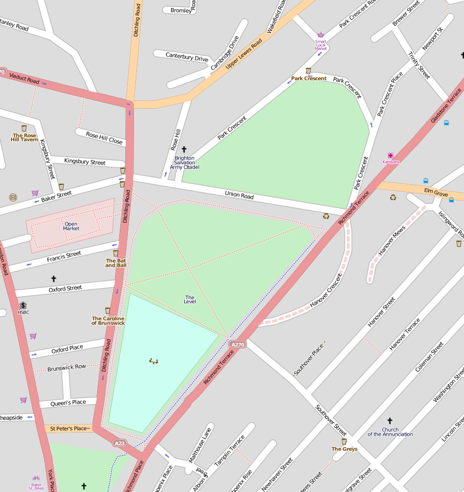 Map of Park Crescent, Brighton, England